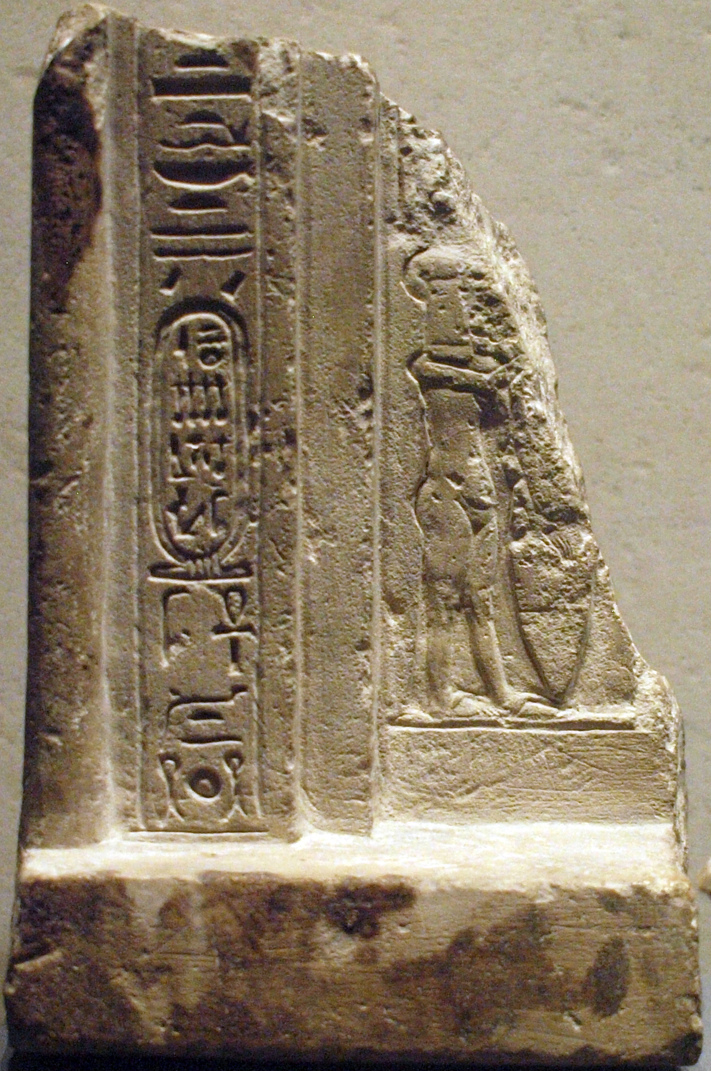 House Altar from Amarna with Name of God Aten in Cartouche - 18th Dynasty, Staatliches Museum Ägyptischer Kunst München, ÄS 2823